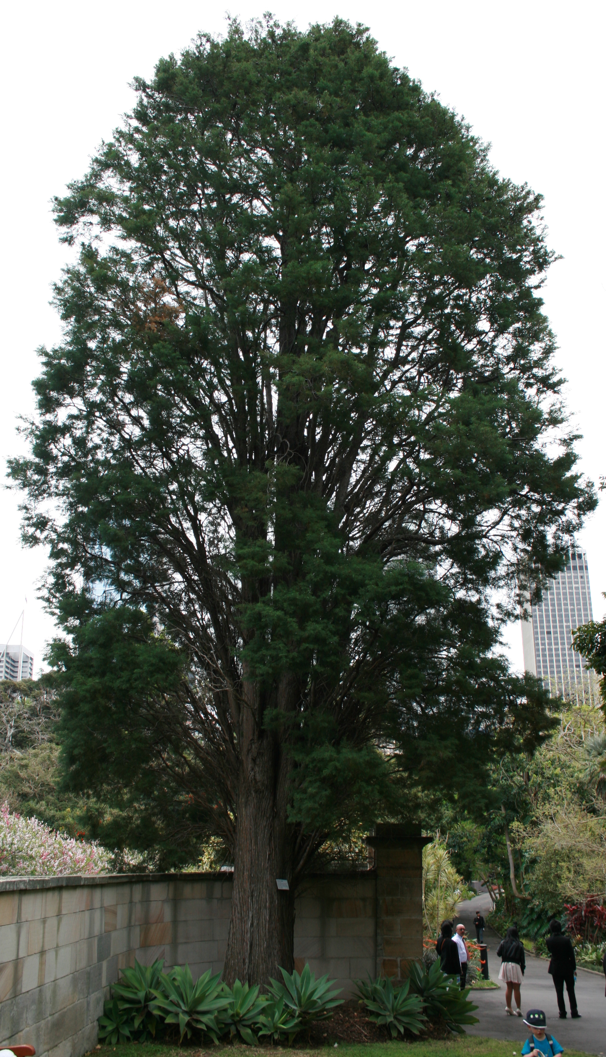 A Mexican Cypress (Cupressus lusitanica) in the Sydney Botanic Gardens, Sydney, New South Wales, Australia.